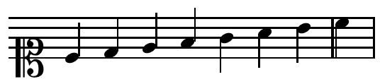 Diatonic scale on C, soprano clef.